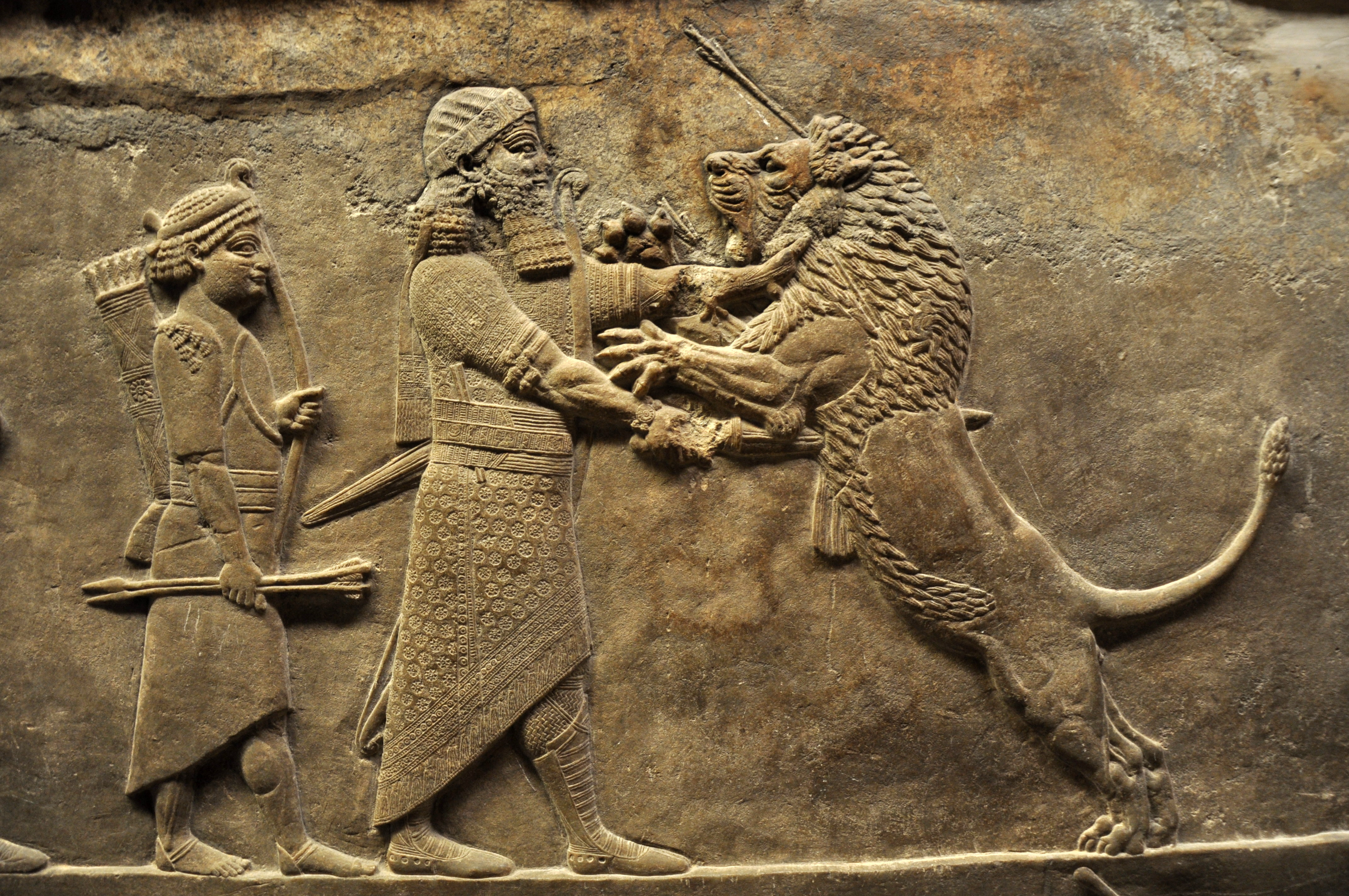 Relief showing king ahur- bani- apli killing a lion from the north palace Ninive 645-635 BC. British Mueseum.